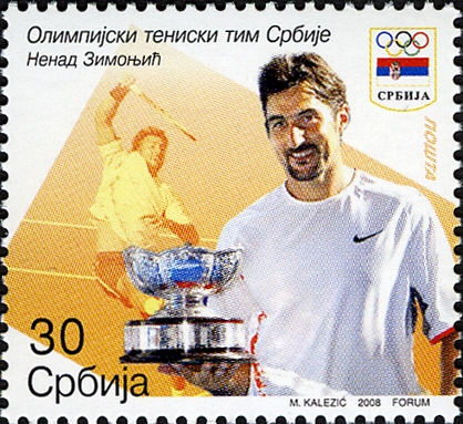 Serbian Olympic Tennis Team - Nenad Zimonjić